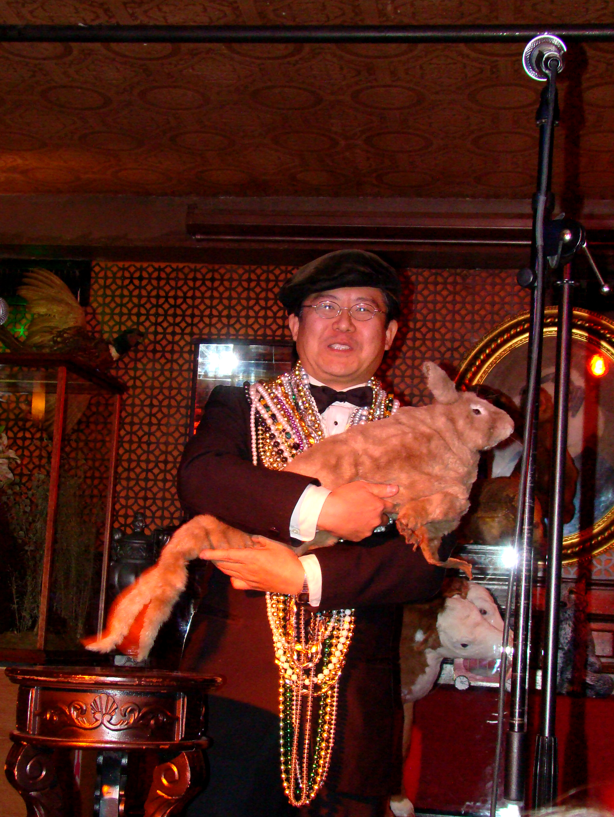 Takeshi Yamada holding his "sea rabbit" at the Carnivorous Nights taxidermy contest at Union Hall in Brooklyn